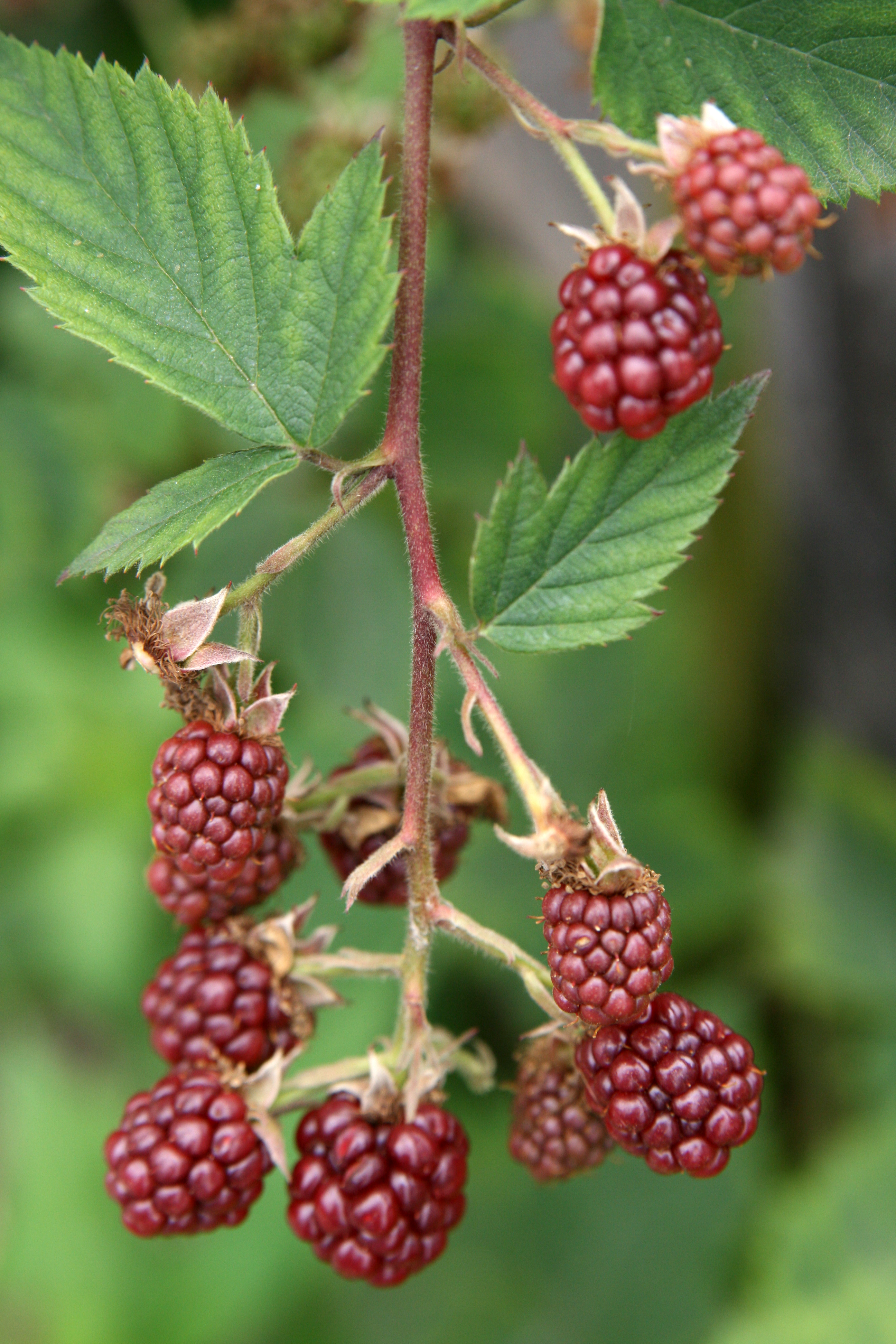 Rubus canadensis 'Perron's Black'